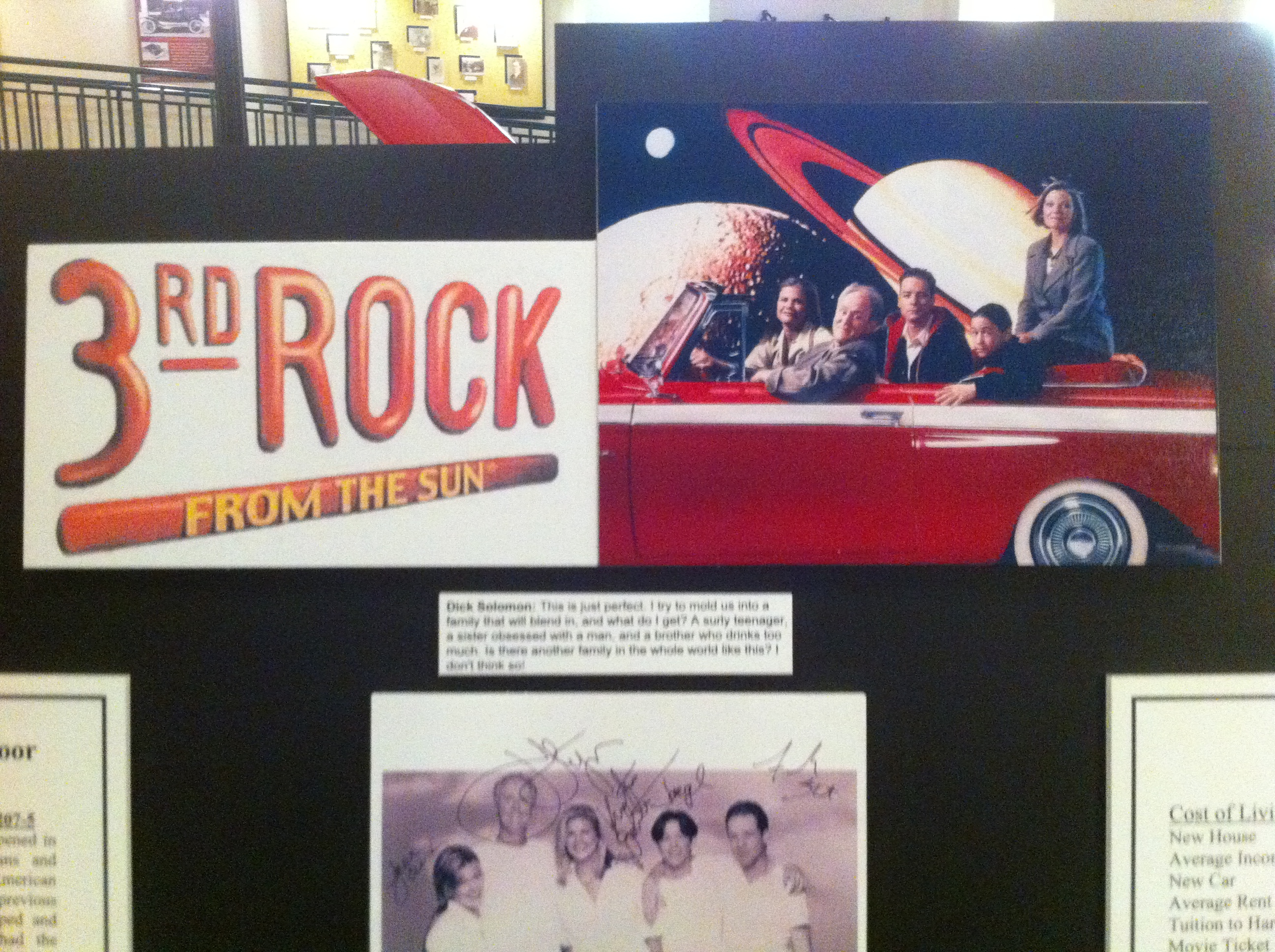 Display panel about the 1962 Rambler American 400 convertible that was used in the TV series "3rd Rock from the Sun". The car was donated by the show's creators and producers: Bonnie and Terry Turner. Picture taken in The Rambler Legacy Gallery of the The Kenosha History Center.